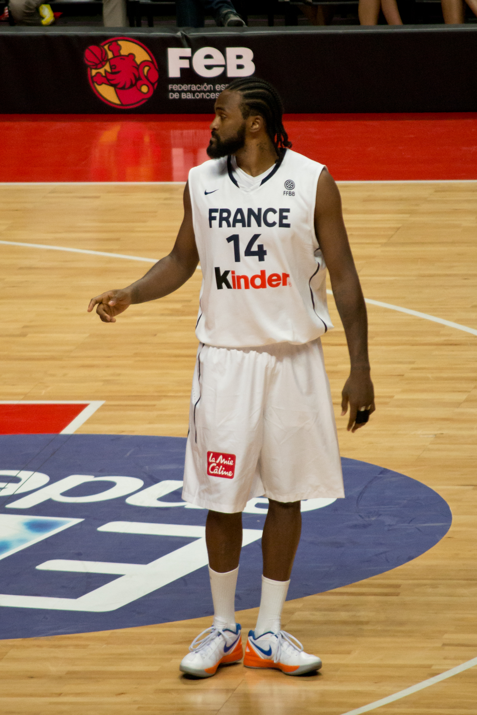 Ronny Turiaf with the France national basketball team.